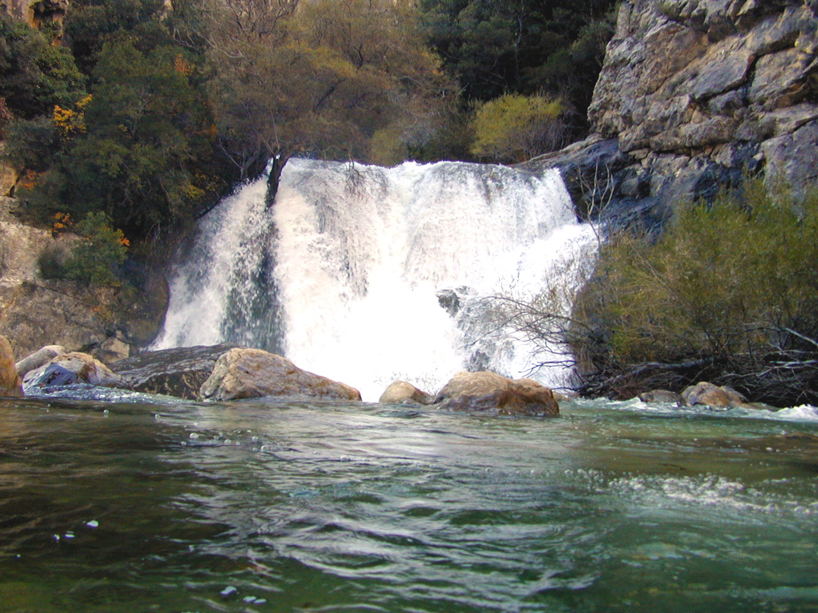 Confluence of Siagne de la Pare with Siagne (malines'woods